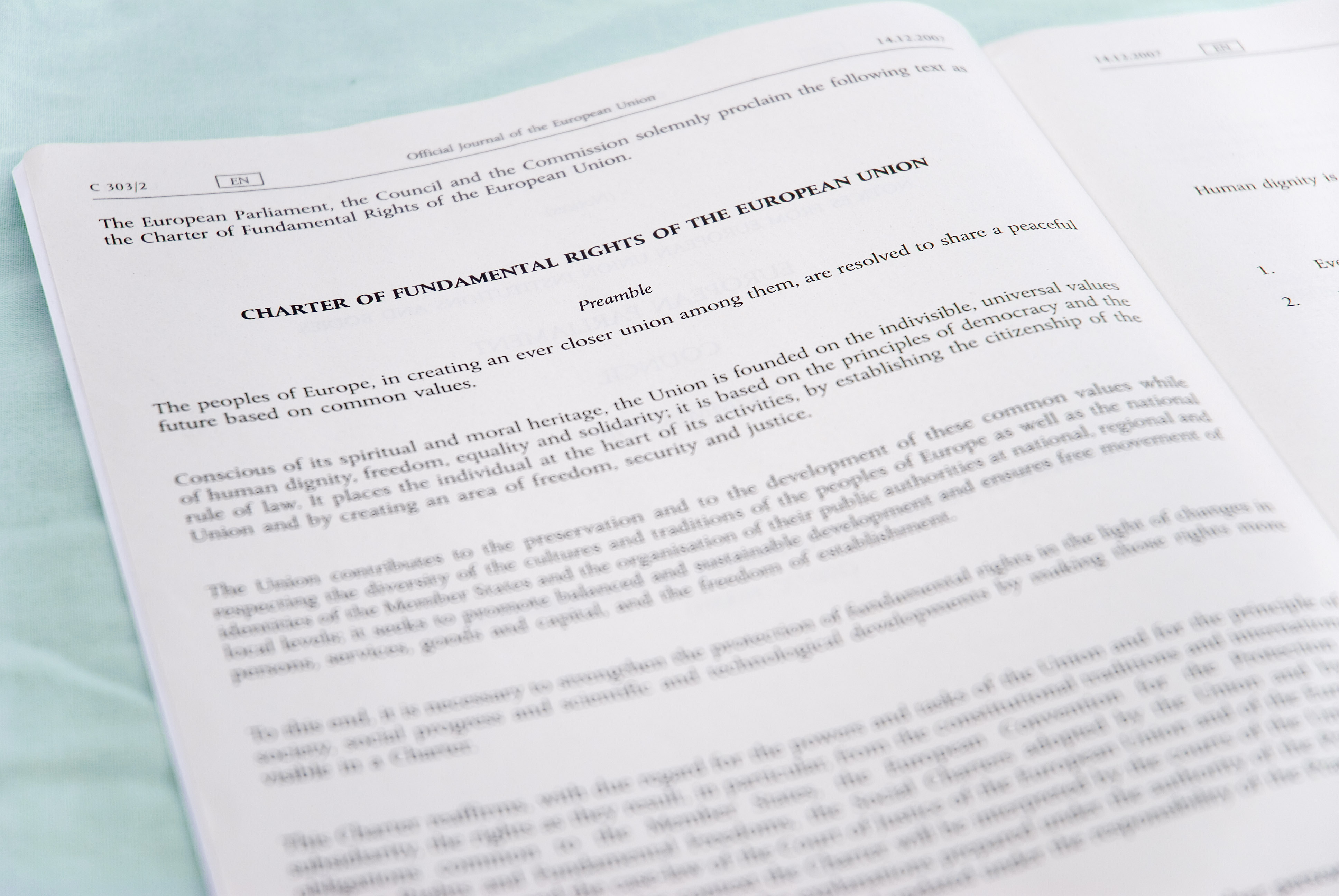 The preamble of the Charter of Fundamental Rights of the European Union